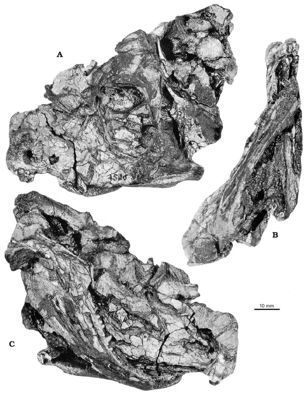 Picture of the synapsid Tetraceratops insignis Matthew, 1908, AMNH 4526 (modified from Laurin and Reisz 1996), holotype (Clear Fork Group: Leonardian, Texas). Left lateral ( A ), palatal ( B ), and right lateral ( C ) views. Reproduced with permission from the Society of Vertebrate Paleontology